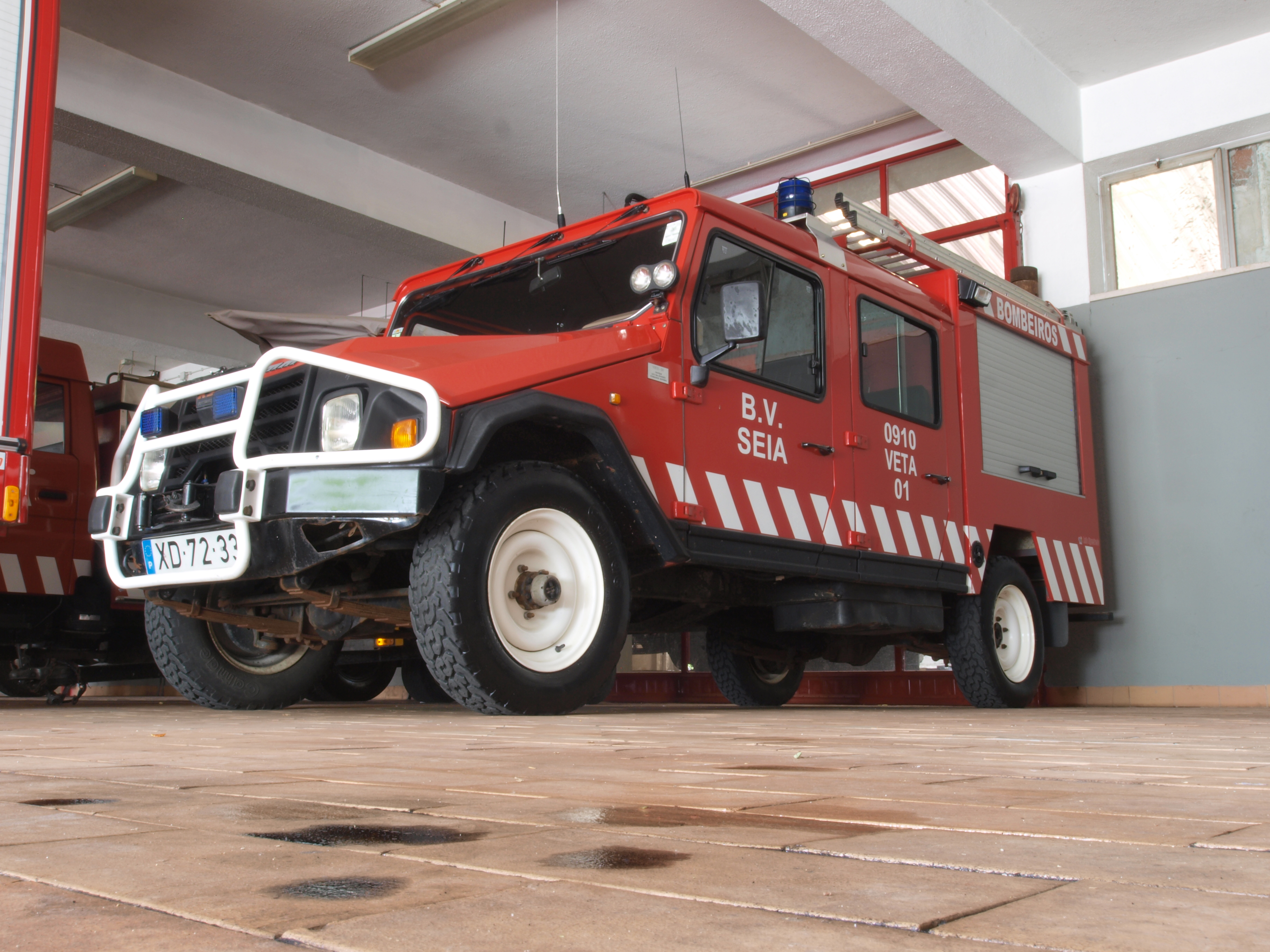 Photographed in Portugal.